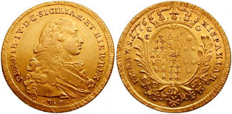 Italia, Bourbon Kings of Naples. Ferdinando IV di Borbone. 1759-1825. AV 6 Ducati (8.79 g). Palermo mint, magistrate Caesare Coppola. Dated 1776. FERDIN IV D G SICILIAR ET HIER REX, bust right; BP below HISPANIAR INFANS 1776, crowned arms; CC C at sides. Crusafont 24; KM 76. Near EF, adjustment marks on both sides.